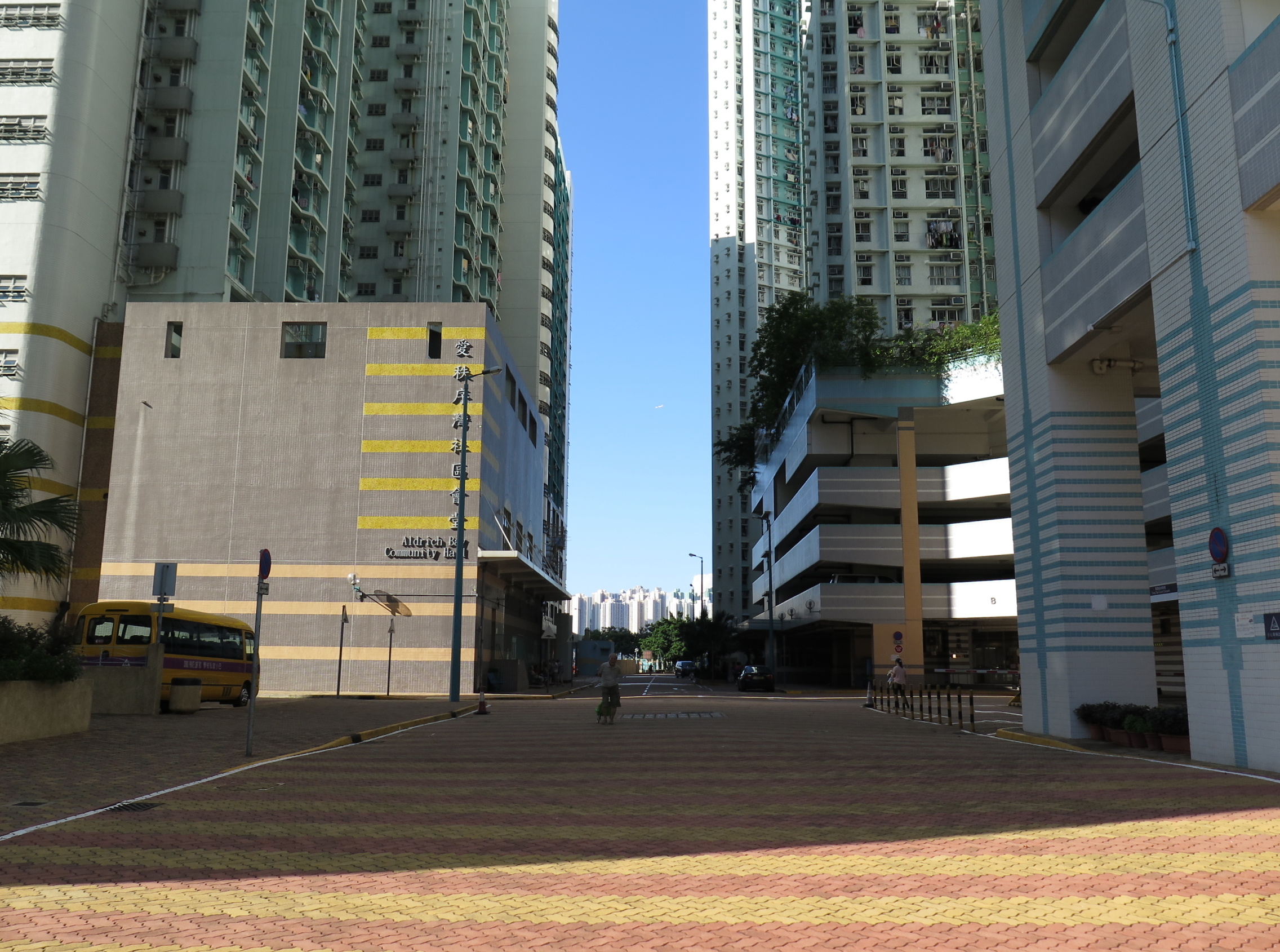 Tung To Court Emergency Vehicle Access